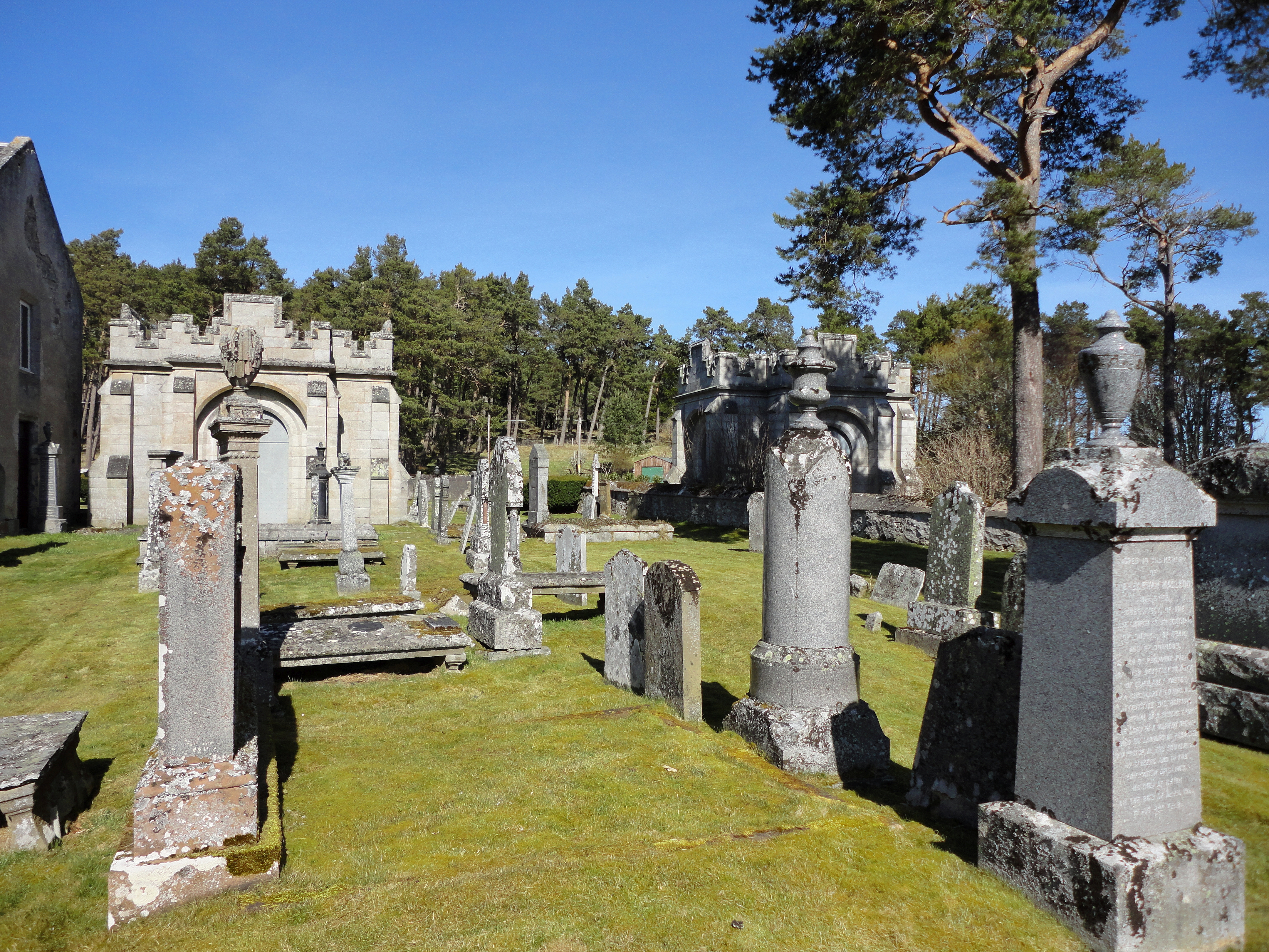 Duthil Old Parish Church and Churchyard (near Carrbridge in Inverness-shire, Scotland): View of the south side of the old parish church, looking north-east